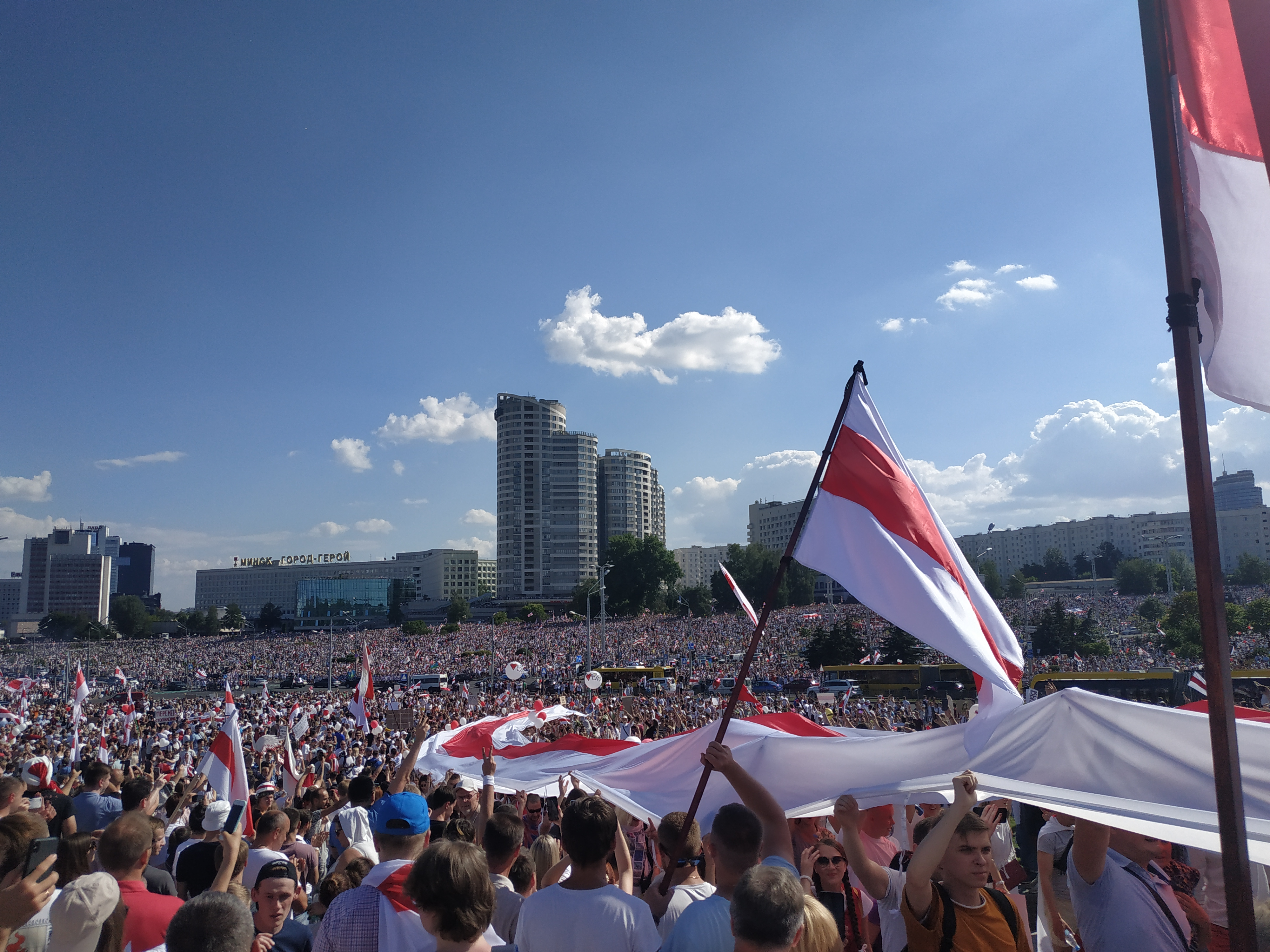 Protest actions in Minsk (Belarus), August 16